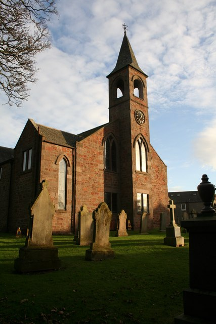 Laurencekirk kirk Laurencekirk Parish Church with its spire.